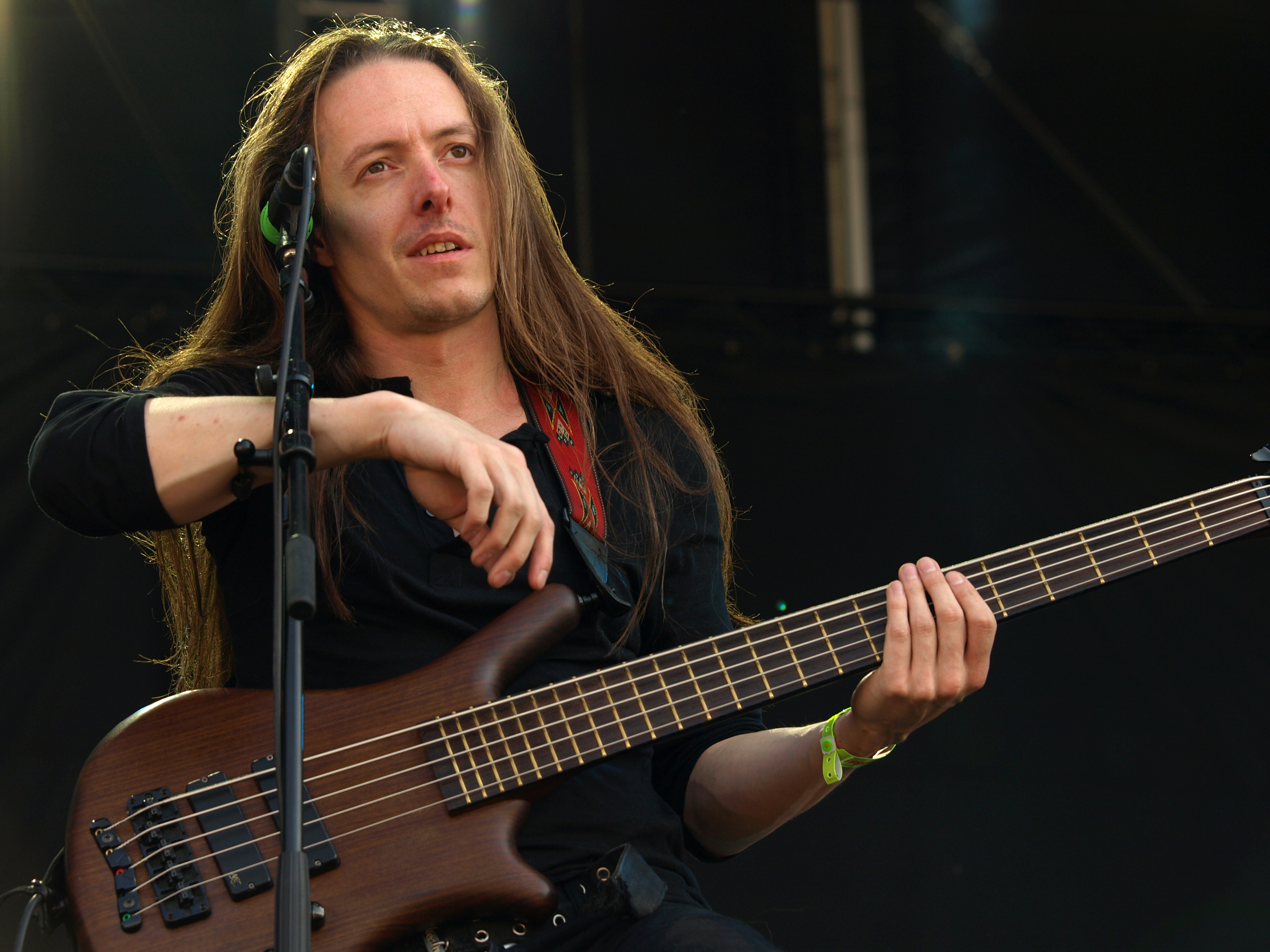 British band TesseractT live at Tuska Open Air 2013